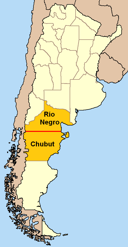 Map showing the location of the 42th parallel south, defining the border between Argentinian provinces